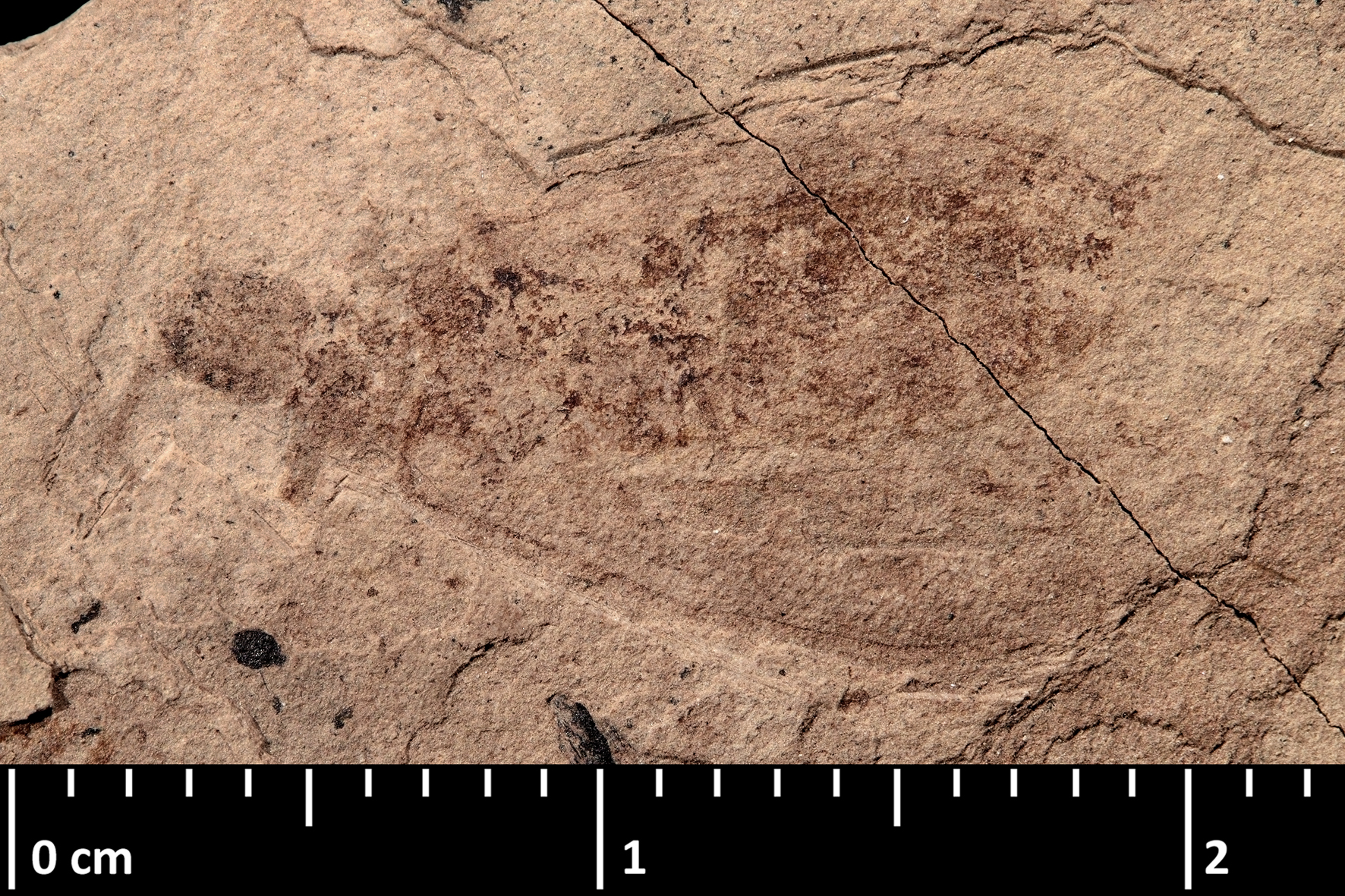 The Mesocupes (Cainomerga) ponti holotype part specimen with direct lighting. Middle Paleocene; Menat Basin, Puy-de-Dôme, France Muséum national d'Histoire naturelle specimen MNHN.F.A51116